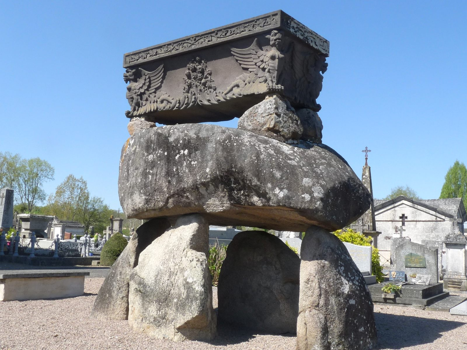 Subprefect of Confolens Jean-Amédée Gontier wife's gravestone, made in 1894, cimetery of Confolens, Charente, France. His young wife Cécile-Jeanne-Marie Crévelier died when she was 21 years old in 1884. This funeral monument was made with the stones of the dolmen of Périssac, that have been moved here. It is 3.2 m high.